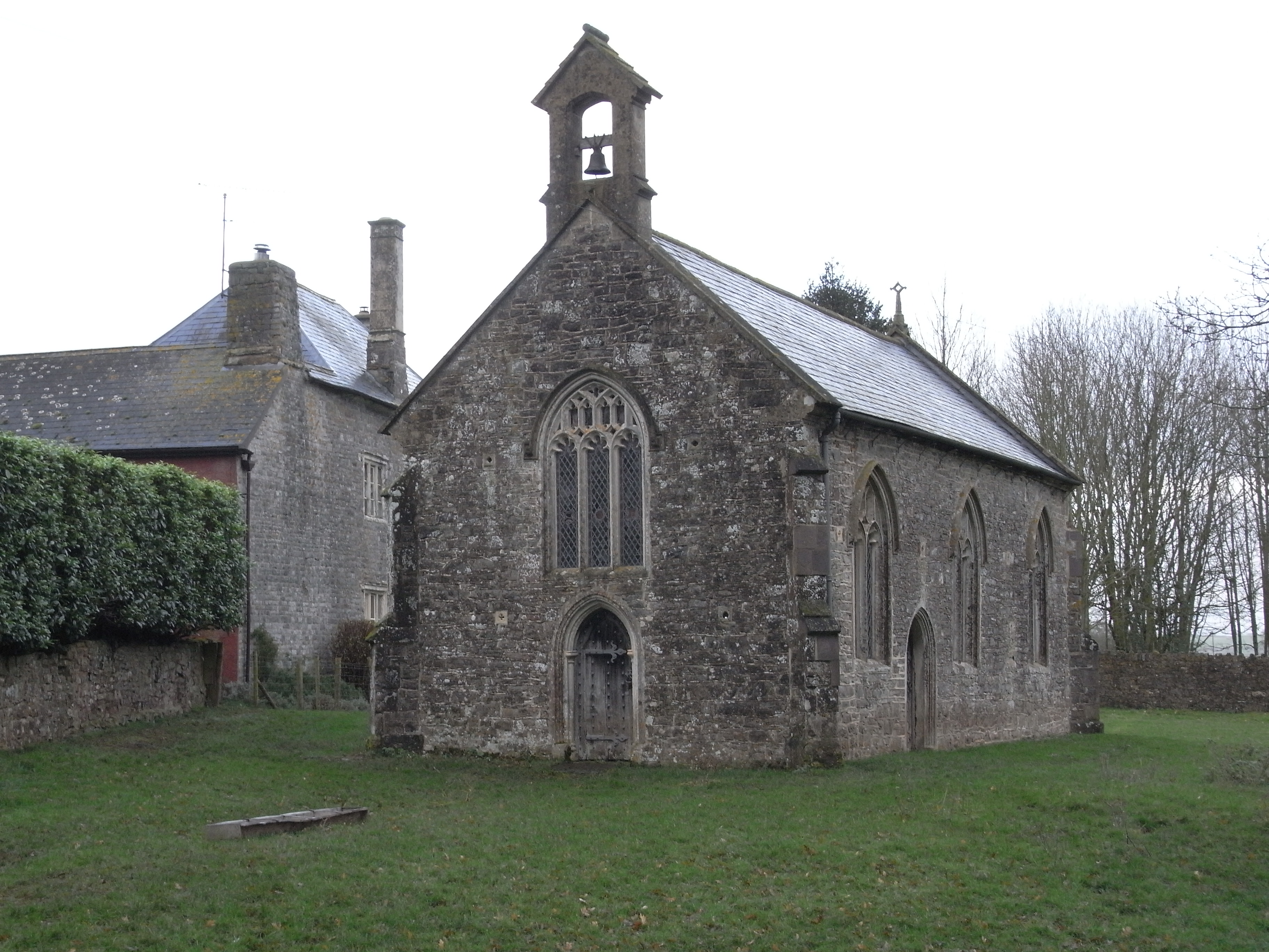 Ayshford Chapel, Ayshford, Burlescombe, Devon, seen from the southwest, with Ayshford Court on the left